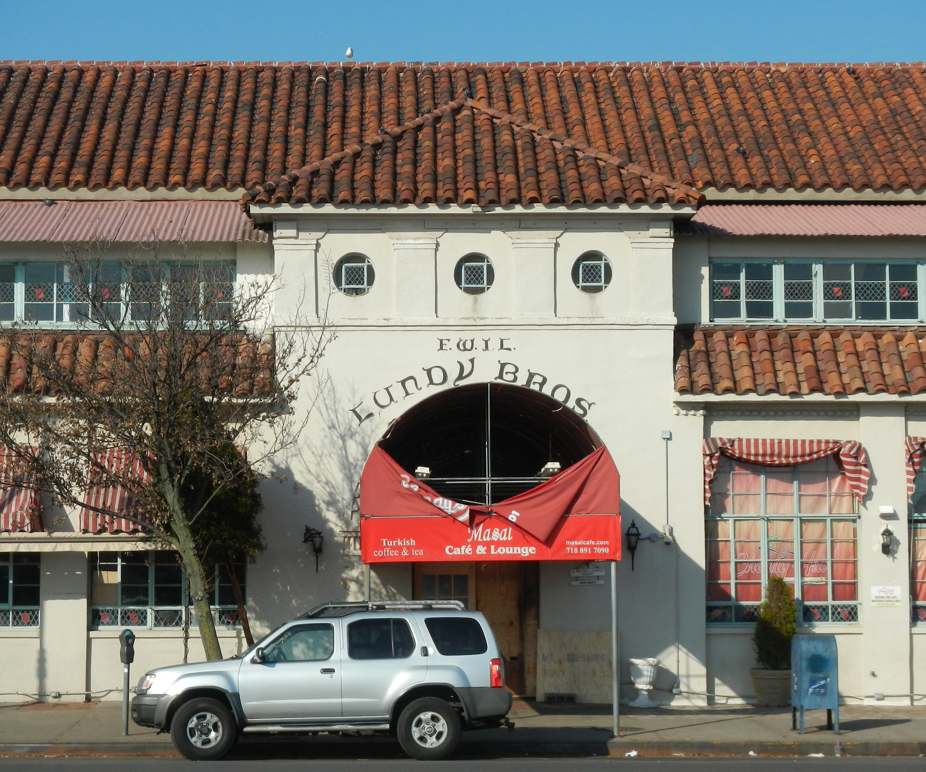 Looking north across Emmons Avenue at torn canopy on a sunny midday.